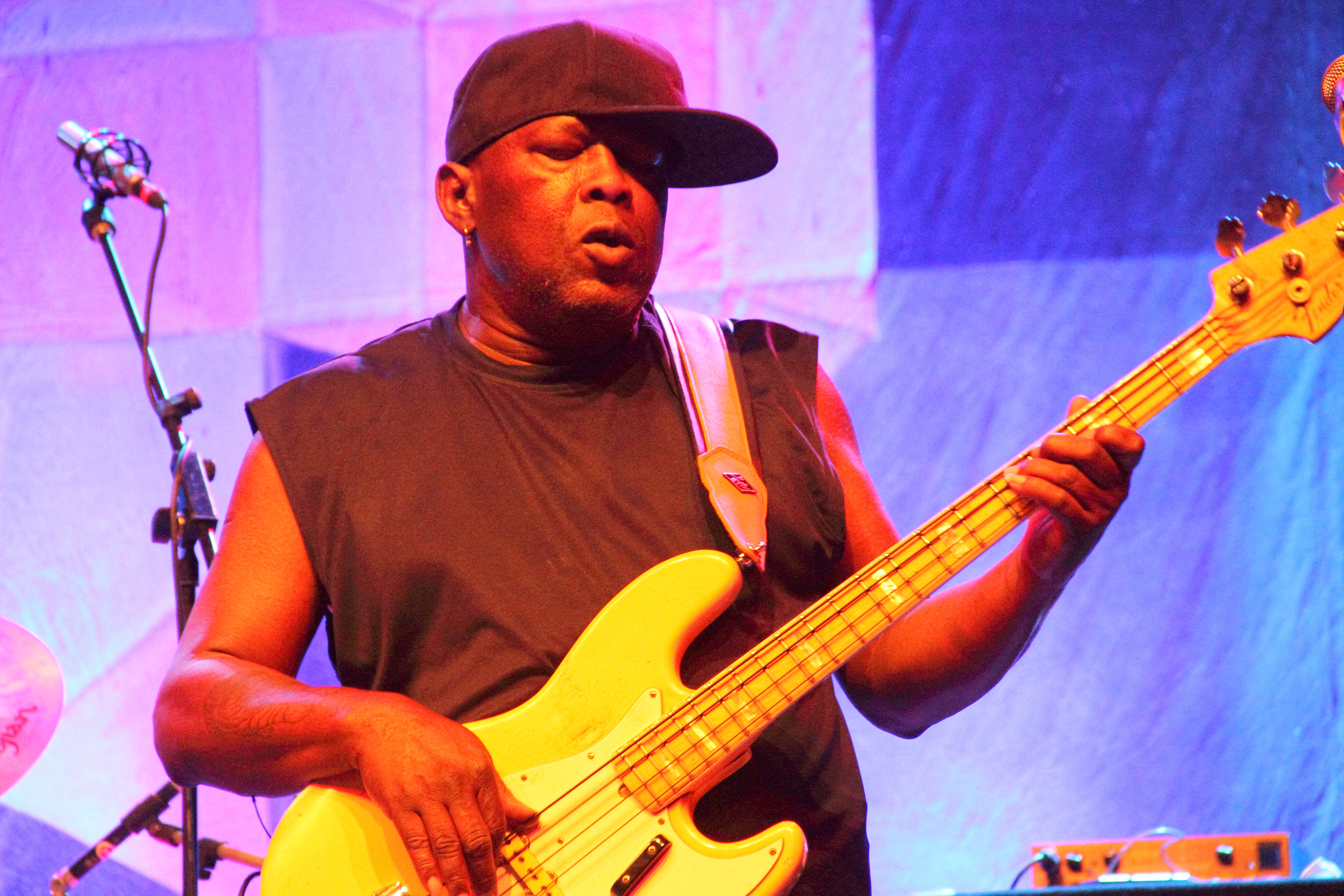 Robbie Shakespeare at concert with Sly Dunbar and Nils Petter Molvær at TFF Rudolstadt, 2015.